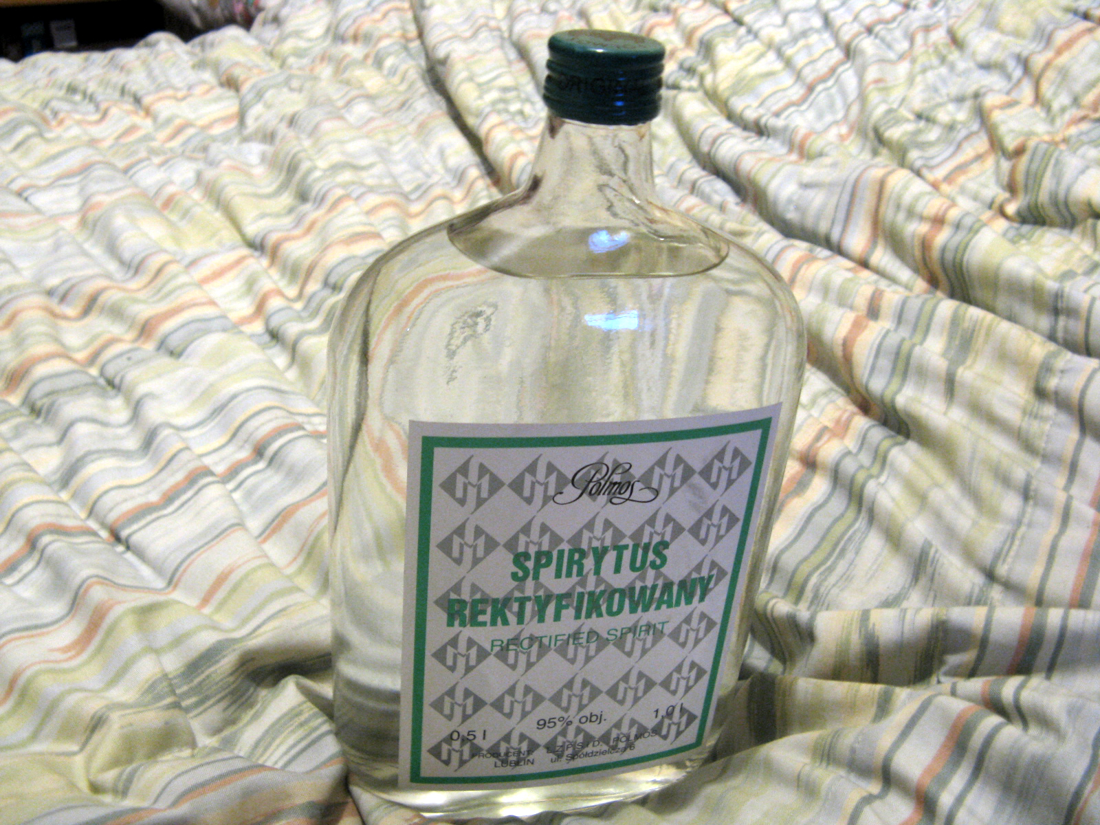 Bottle of rectified spirit.